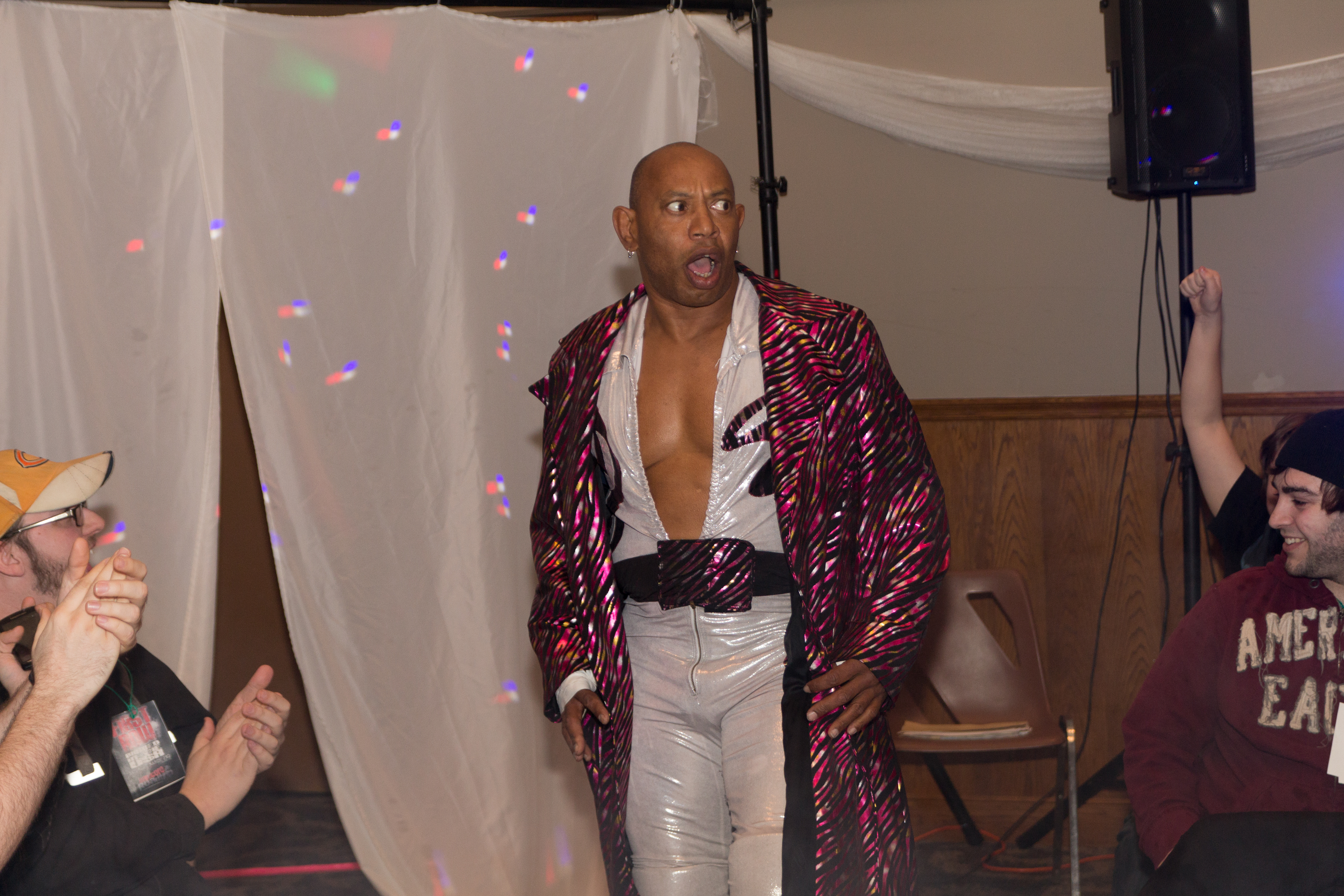 2 Cold Scorpio making his entrance at the Hardcore Roadtrip's Banned in the USA show in London, ON